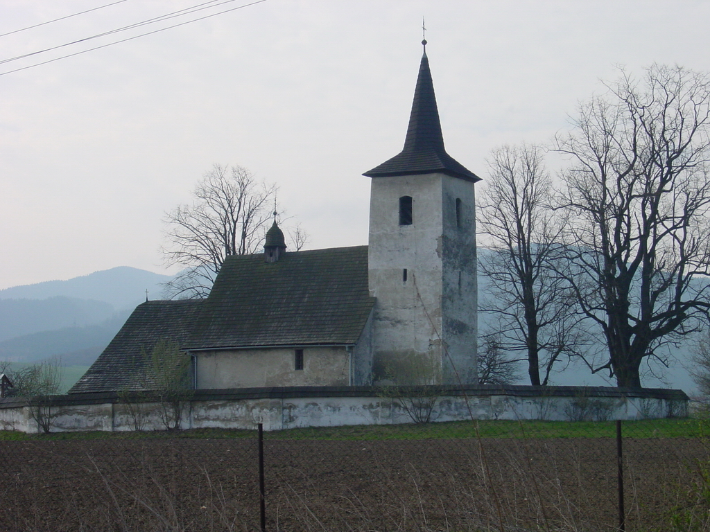 All Saints church near Ružomberk / Slovakia (once Rosenberg in German)